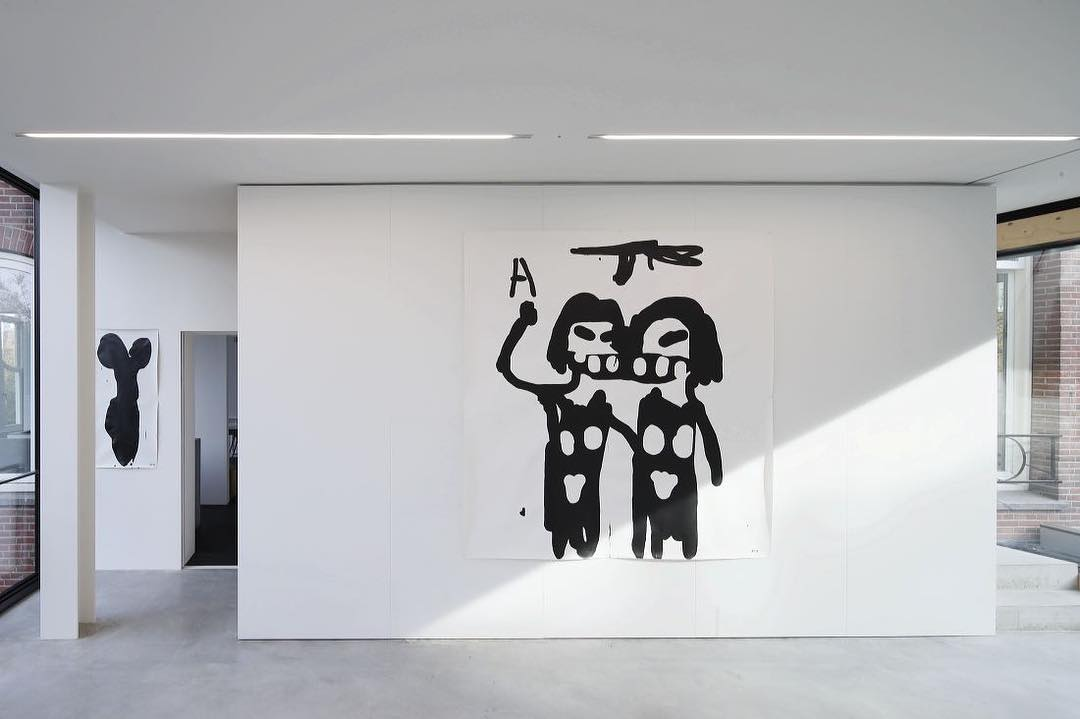 More info